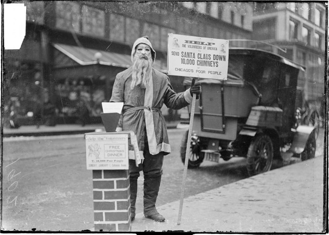 Image of a man dressed up as Santa Claus holding a sign that reads, "Help send Santa down 10,000 chimneys" on the sidewalk of a commercial street in Chicago, Illinois. He is standing next to a chimney with another sign on it. He is wearing a mask with a beard attached. This photonegative taken by a Chicago Daily News photographer in 1902. Photo available through Library of Congress's American Memory project via the Chicago Historical Society. Please include the following citation: DN-0001069, Chicago Daily News negatives collection, Chicago Historical Society.